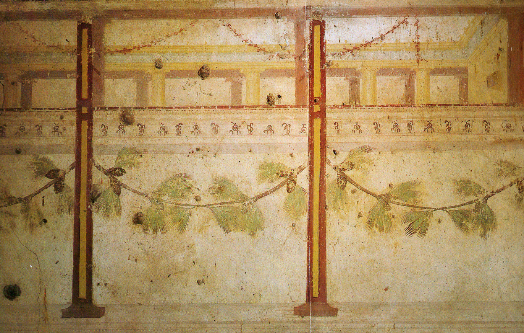 Roman fresco, House of Augustus, Palatine Hill